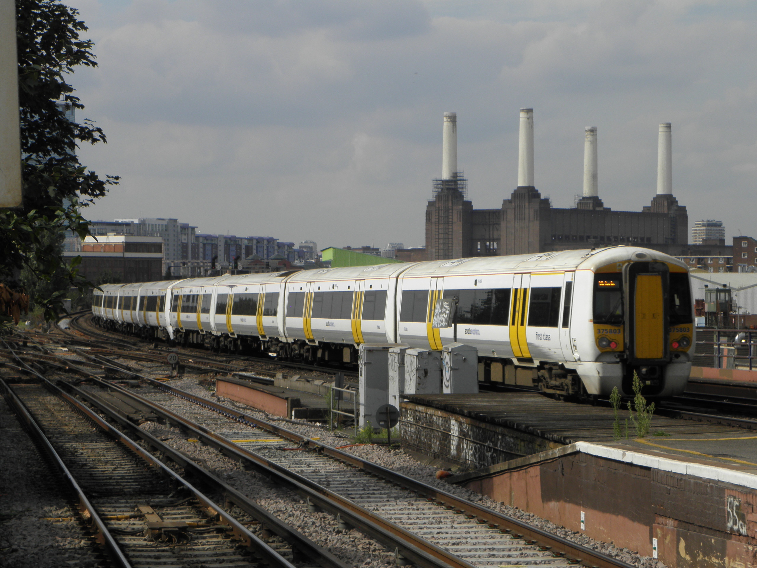 Southeastern Class 375 unit 375803 leads an 8-car train past Wandsworth Road station with a service from London Victoria. Battersea Power Station can be seen in the background.